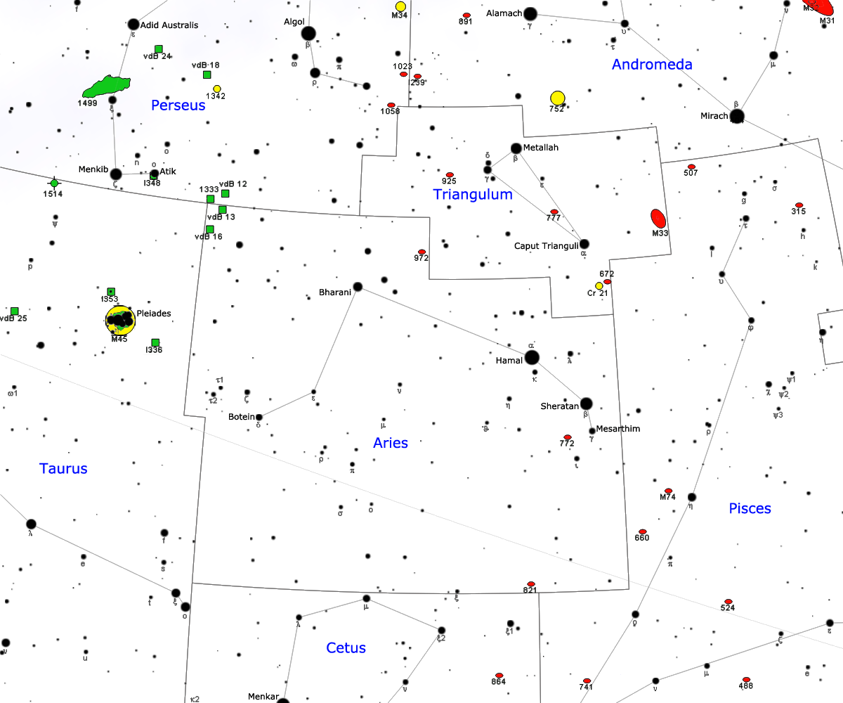 Map of Aries and Triangulum